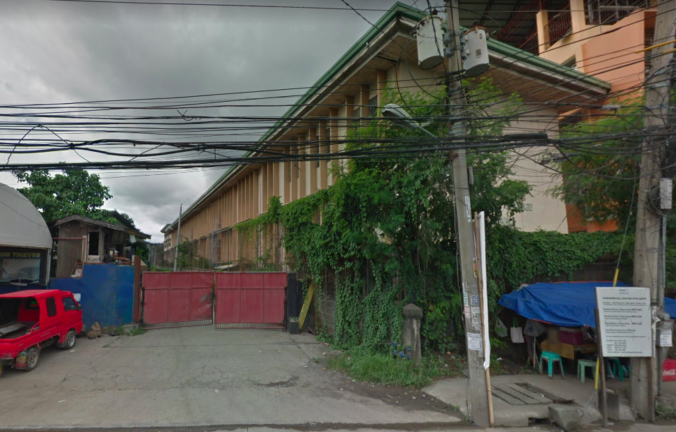 Located in J.P. Cabaguio Avenue, Davao City